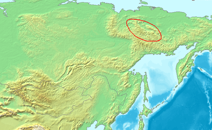 Location Chersky Range.PNG